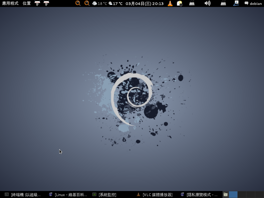 screenshot of Debian 7.3 (wheezy) amd64 with GNOME 3.4.2